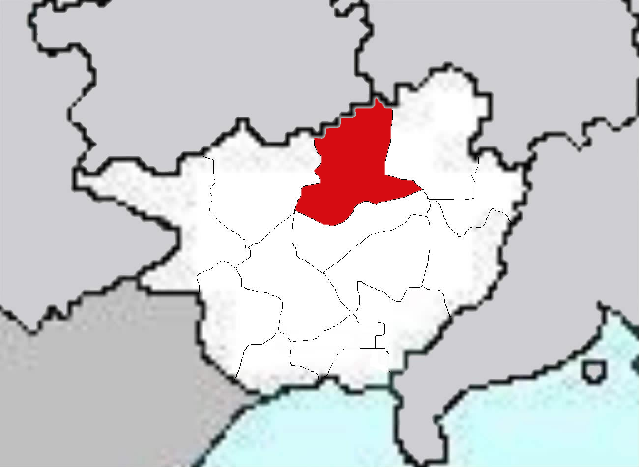 Maps of Guangxi Autonomous Region of China.